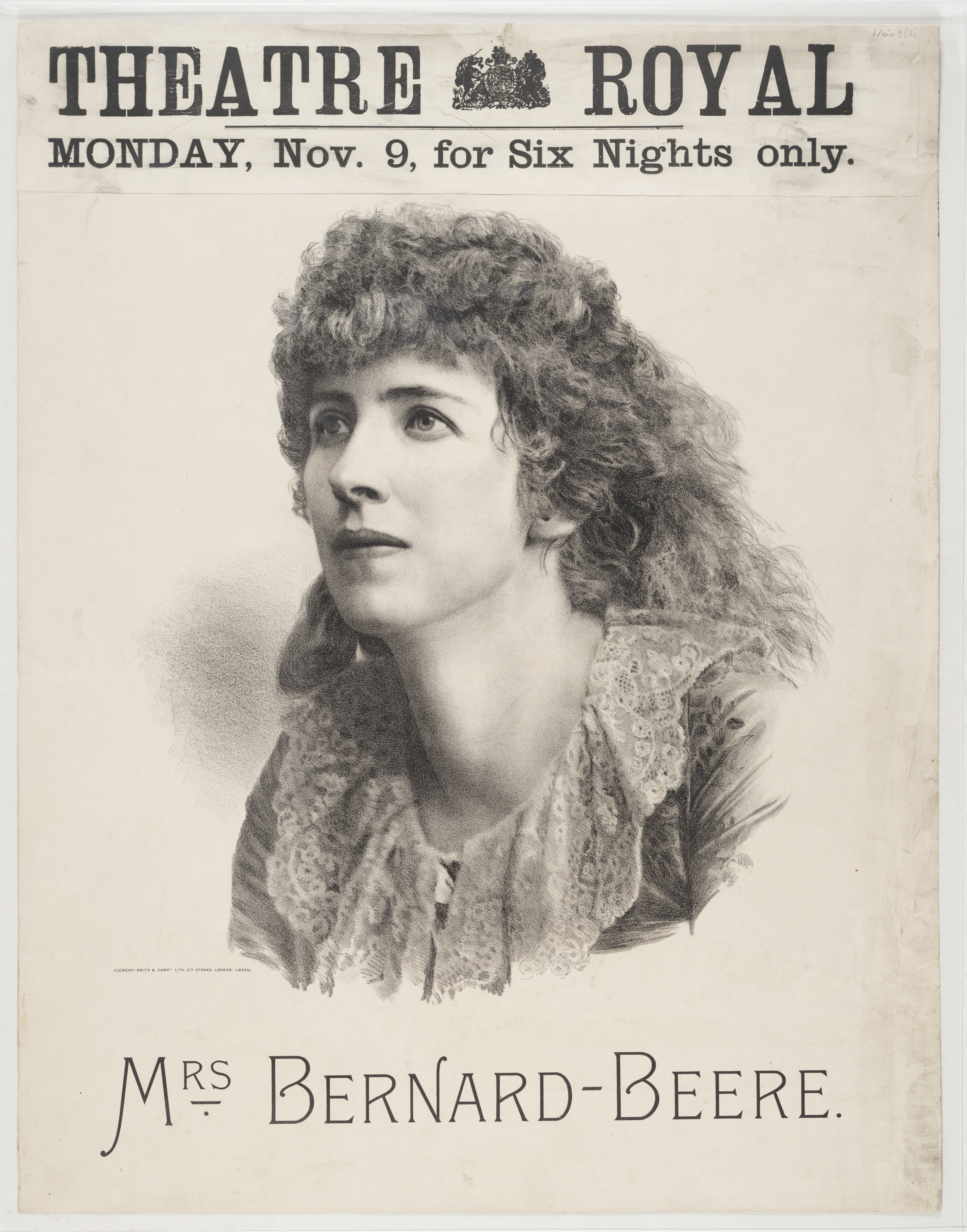 Monday, Nov. 9, for six nights only. Mrs Bernard-Beere. Printed by Clement-Smith & Comp[an]y, Lithographer, 317 Strand, London.